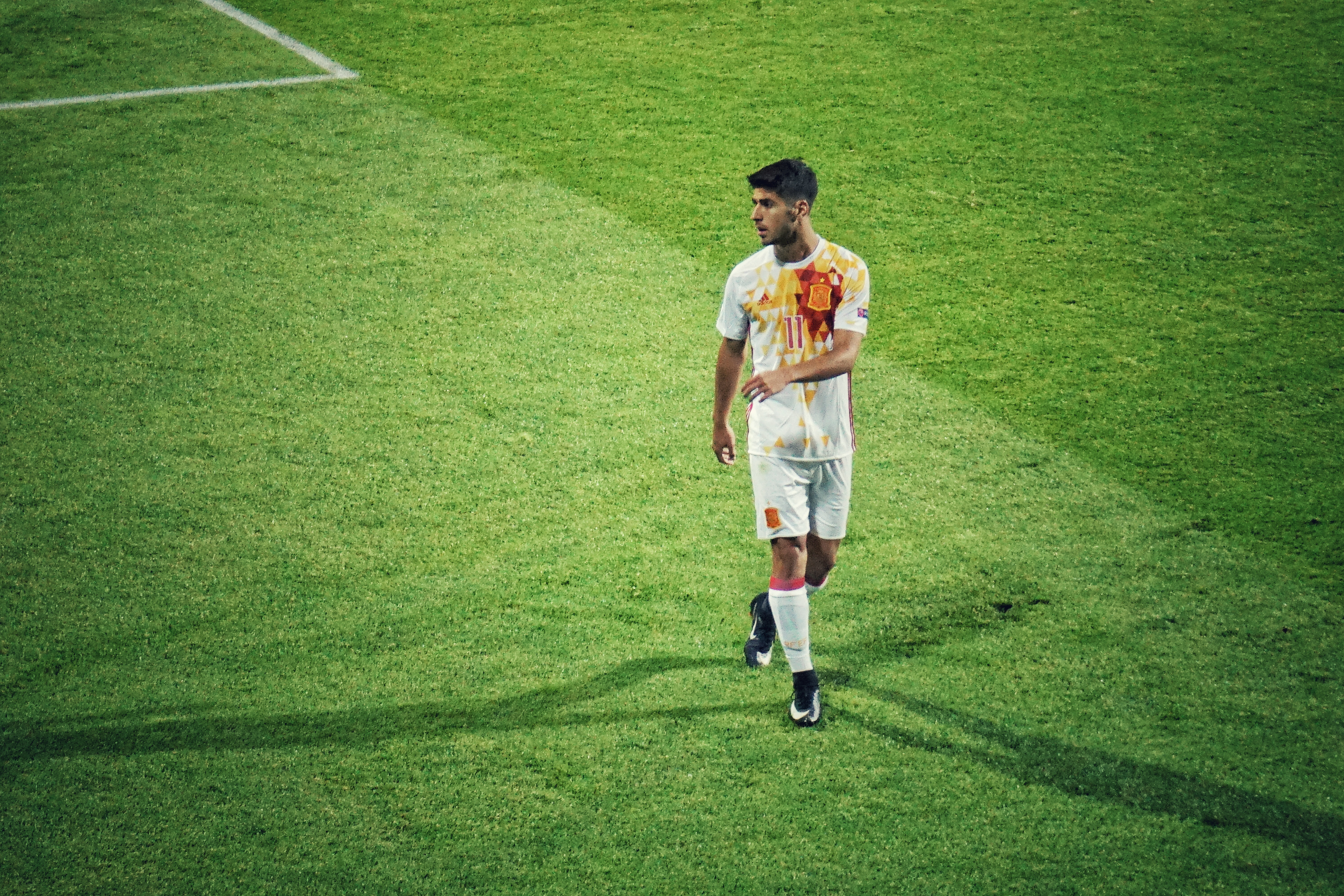 Marco Asensio during UEFA European Under-21 Championships game between Portugal and Spain on 20 June 2017 in Gdynia, Poland.